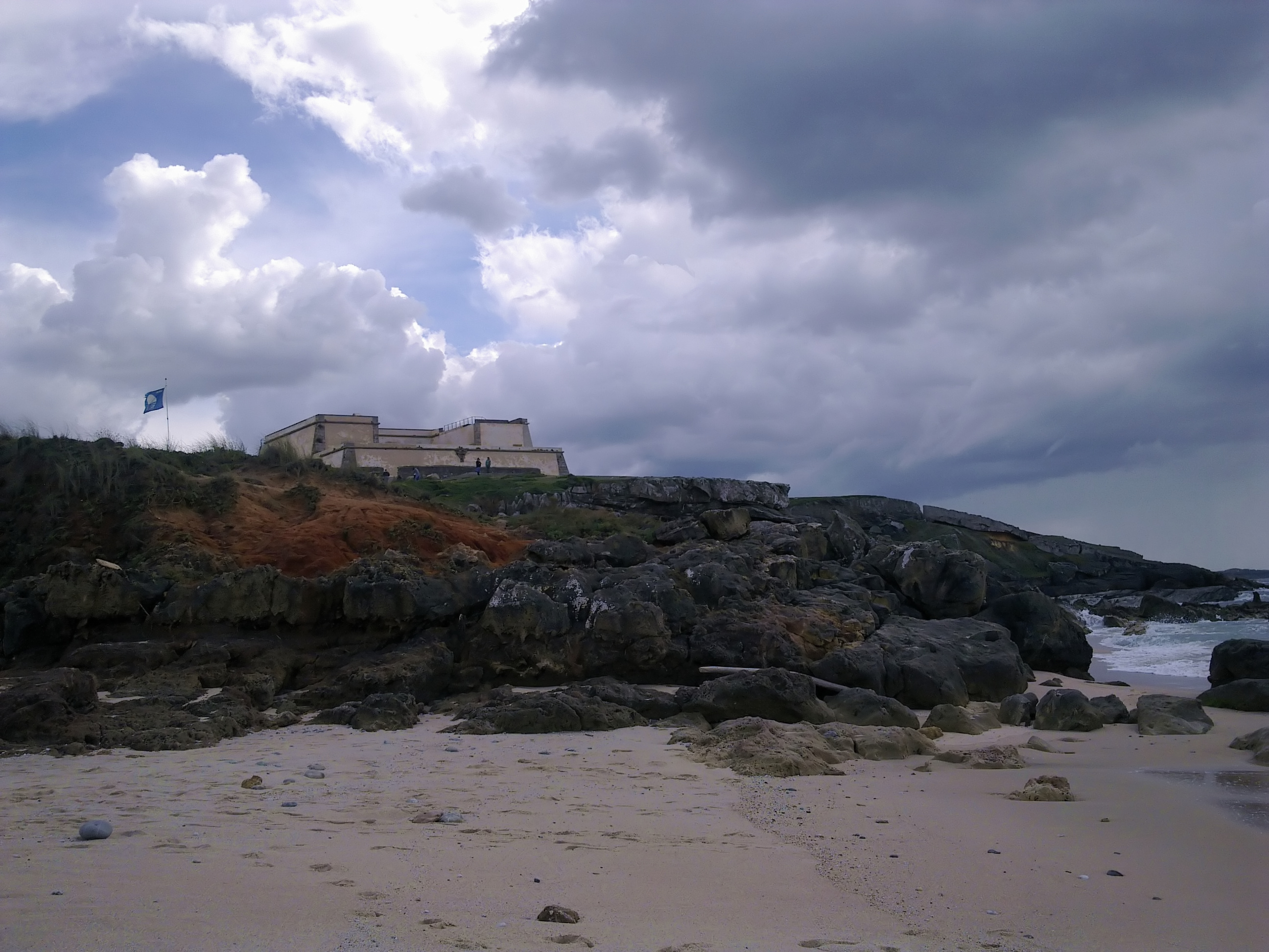 The Fortress of Pessegueiro. Porto Covo, west coast of Portugal 8, 1/133, ISO 100